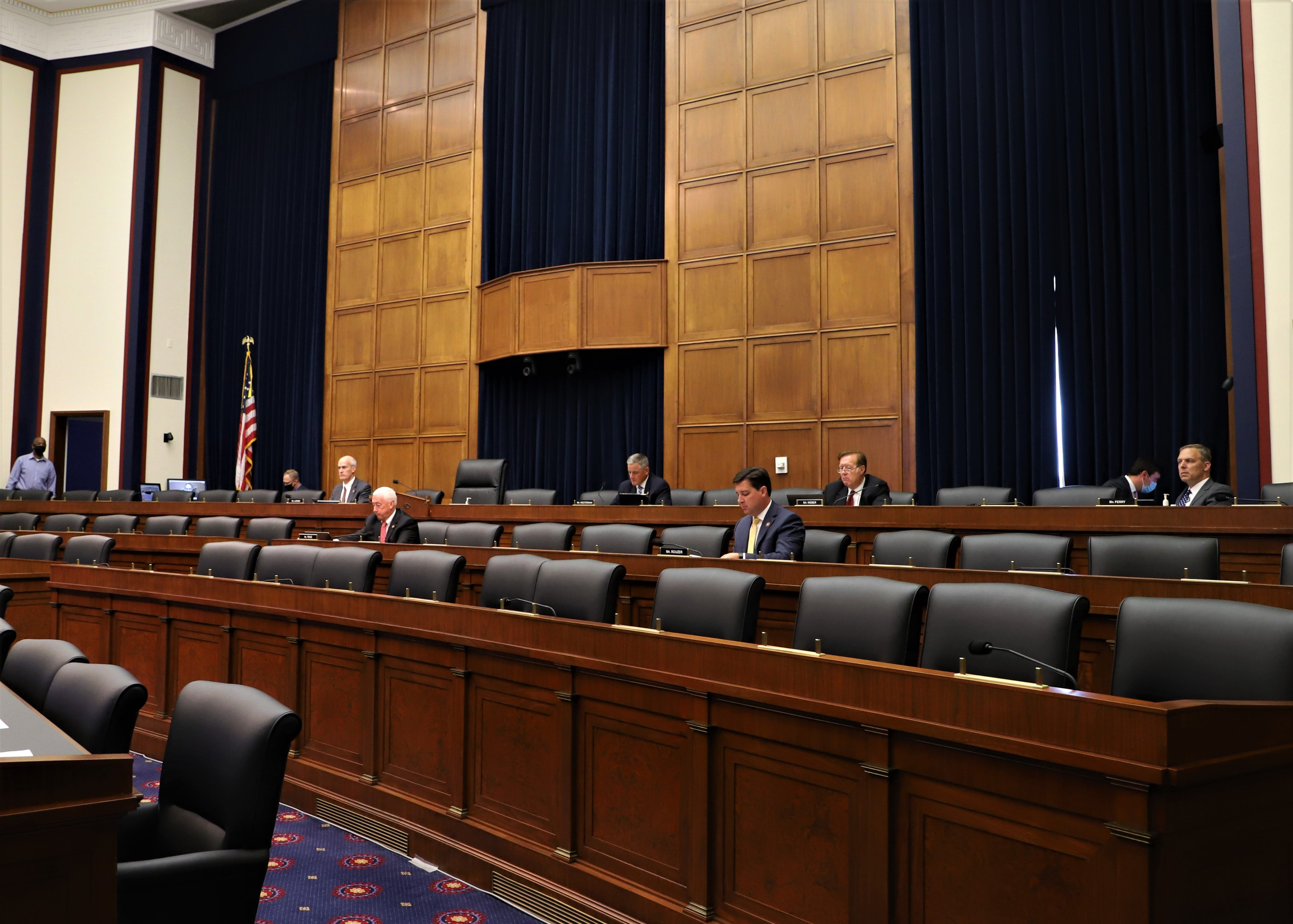 Millions of Americans are finding safe ways to return to work. There's no reason Congress can't do the same. I'm in D.C. for today's hearing because this is the job I signed up to do. Being here in person is an essential part of the legislative process. Let's get back to work.